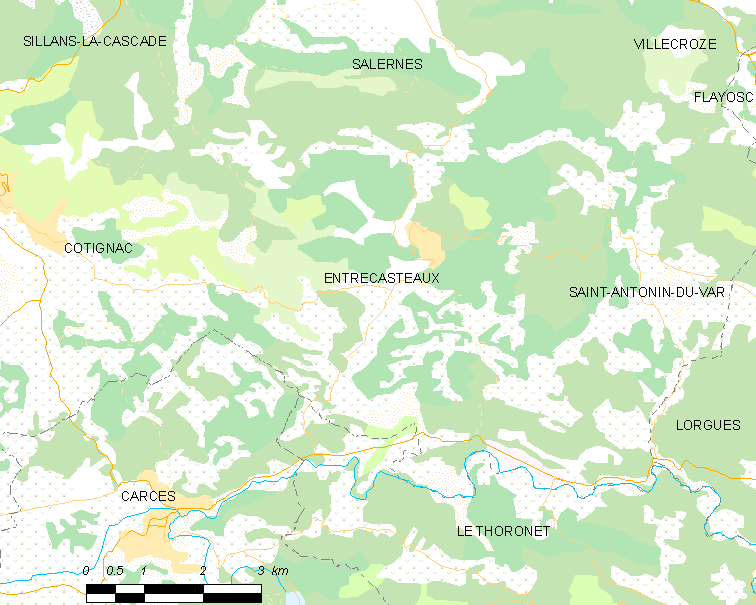 Map of French municipality Entrecasteaux